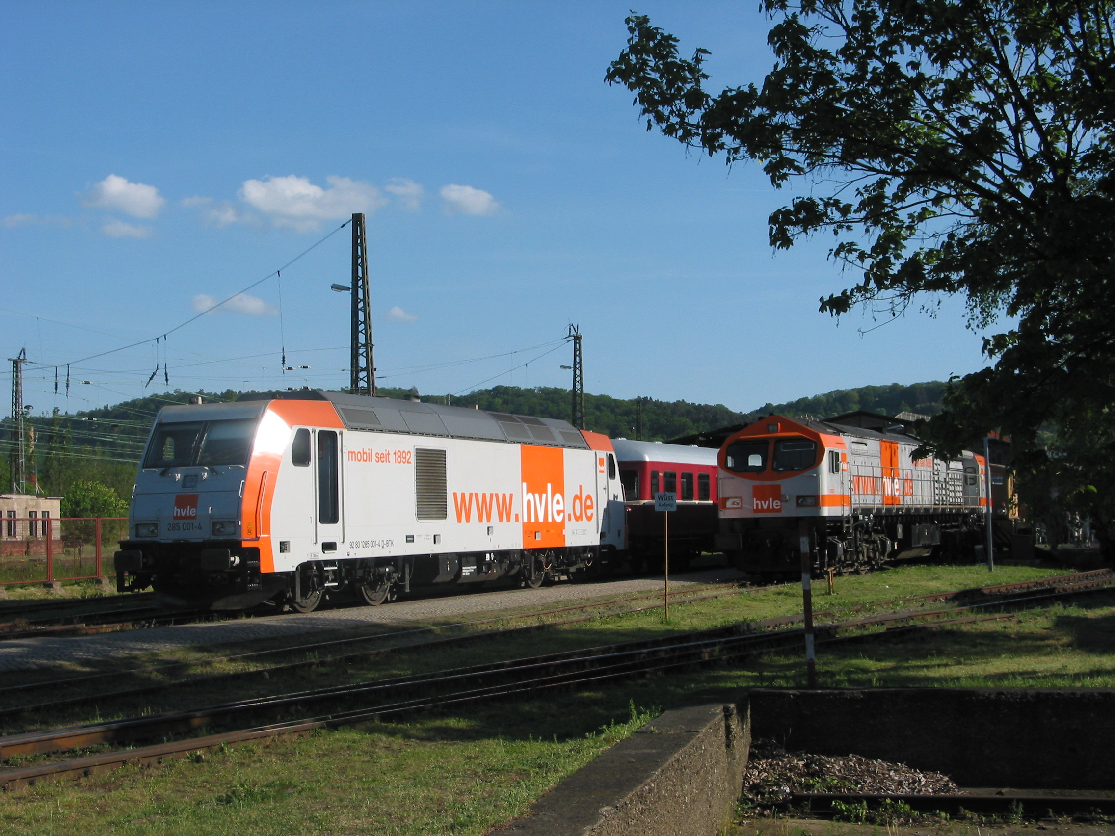 Two types of Bombardier Diesel locomotives (right: Blue Tiger) from the german railway company Havelländische Eisenbahn GmbH (HVLE)in Blankenburg (Harz)